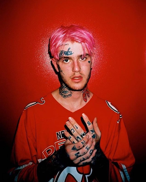 Lil Peep during a photoshoot by photographer Miller Rodríguez, better known as Pretty Puke.